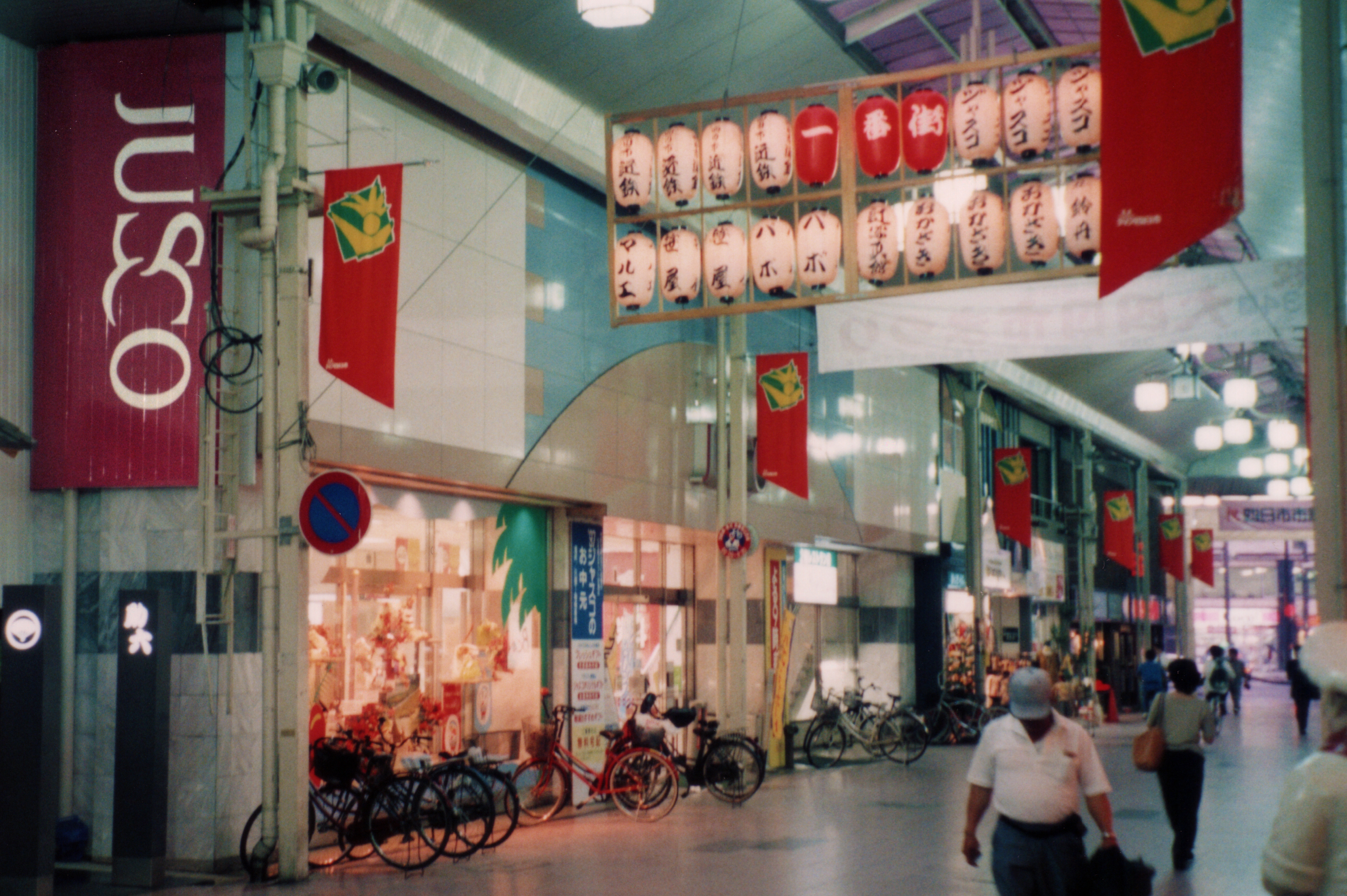 JUSCO Yokkaichi, 5-8 Suwasakaemachi Yokkaichi-City Mie Japan.